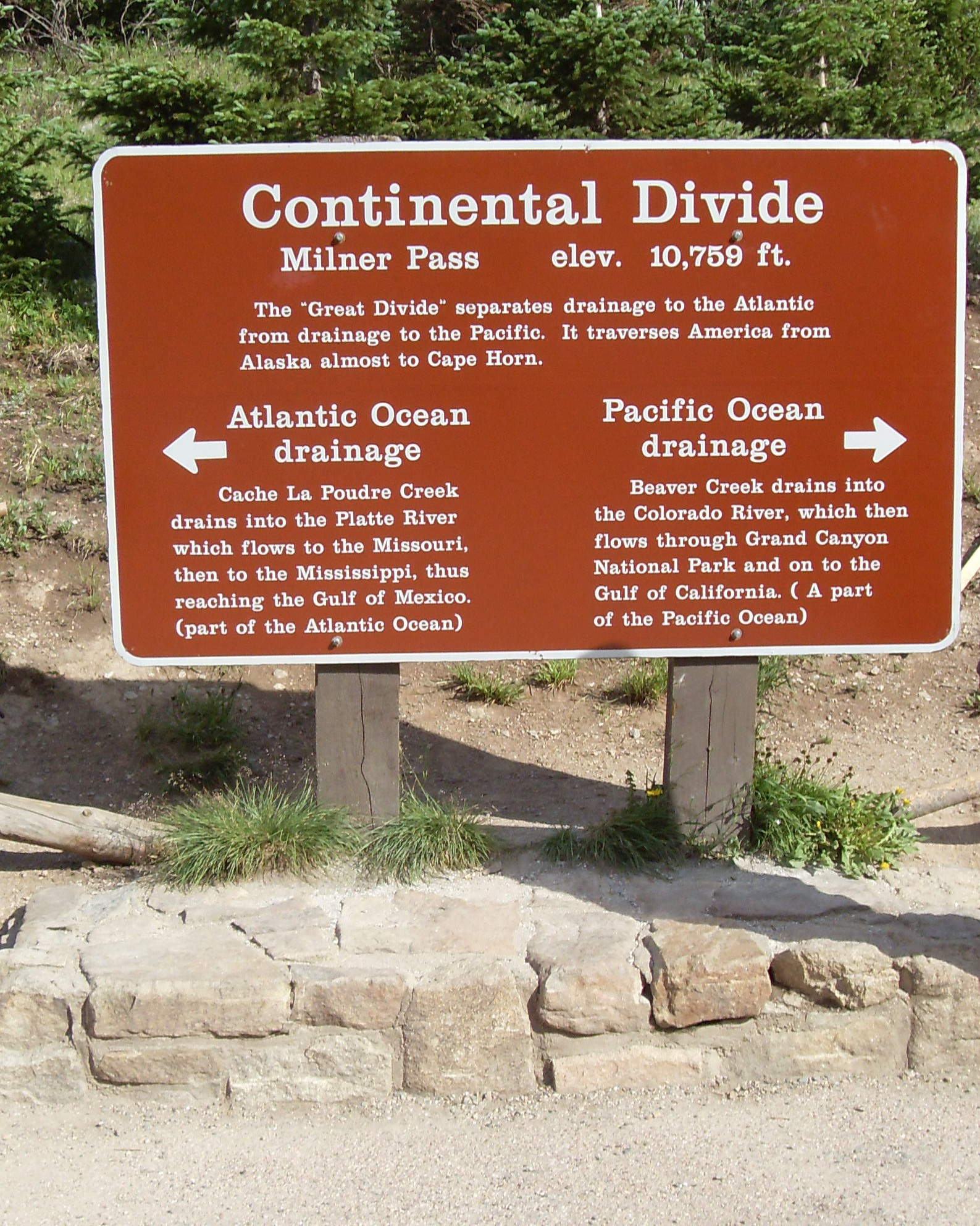 Continental Divide sign on Milner Pass in the Rocky Mountain National Park